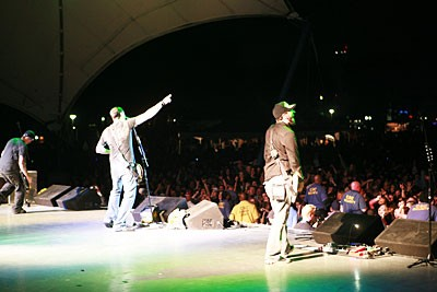 Breaking Benjamin performing live